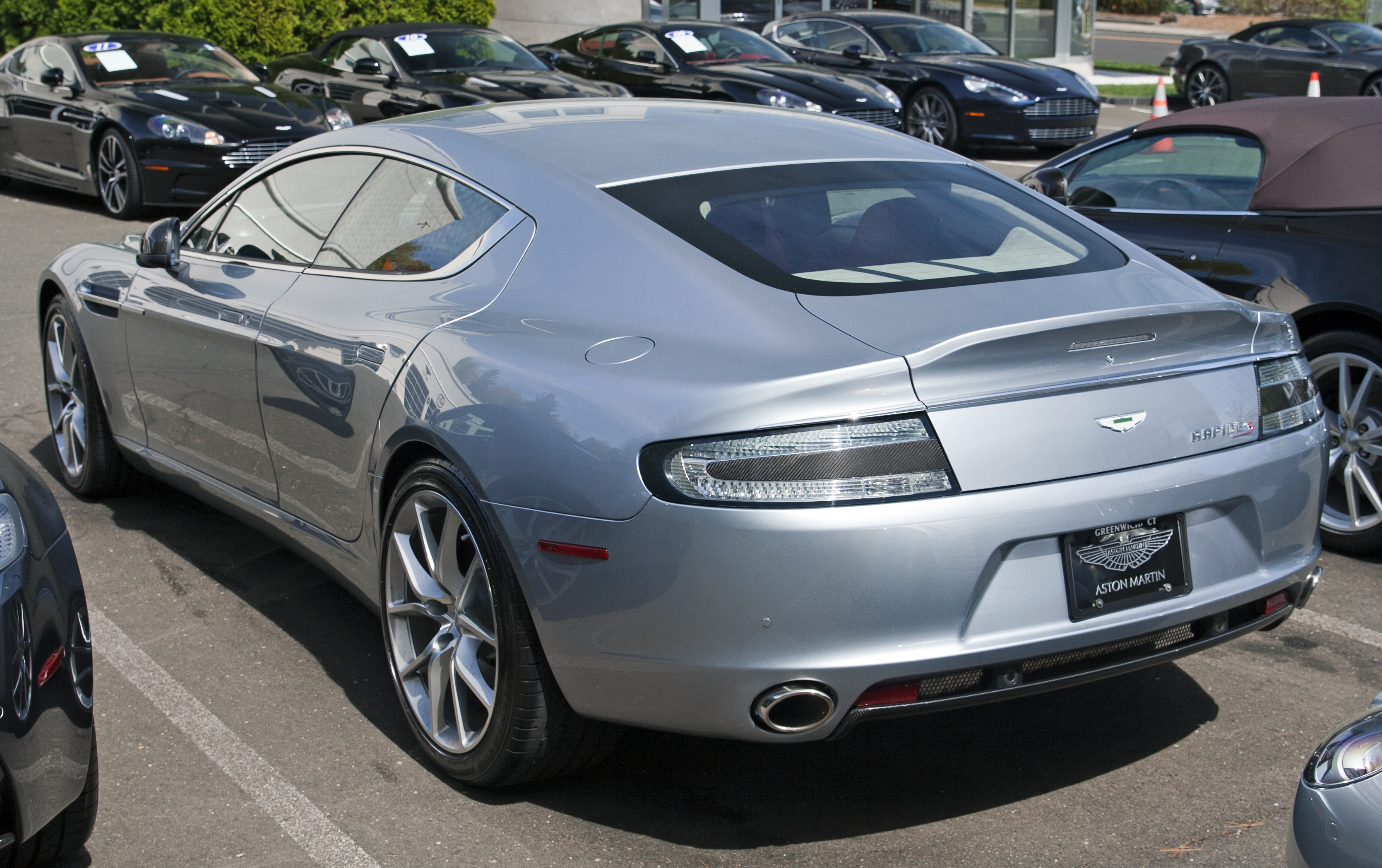 Rear of a 2014 Aston Martin Rapide S at a dealership in Greenwich, CT. The S has a much larger grille and a ducktail spoiler on the rear, to set it apart from its more pedestrian cousins.